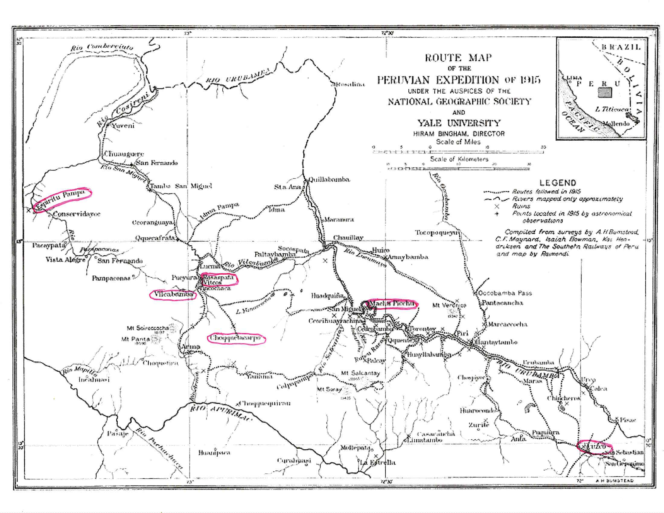 The expedition of Hiram Bingham to Vilcabamba, Peru in 1915 produced this map, published in National Geographic Magazine in 1916.